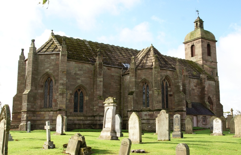 Ladykirk Church, Scottish Borders, Scotland. View from south east.